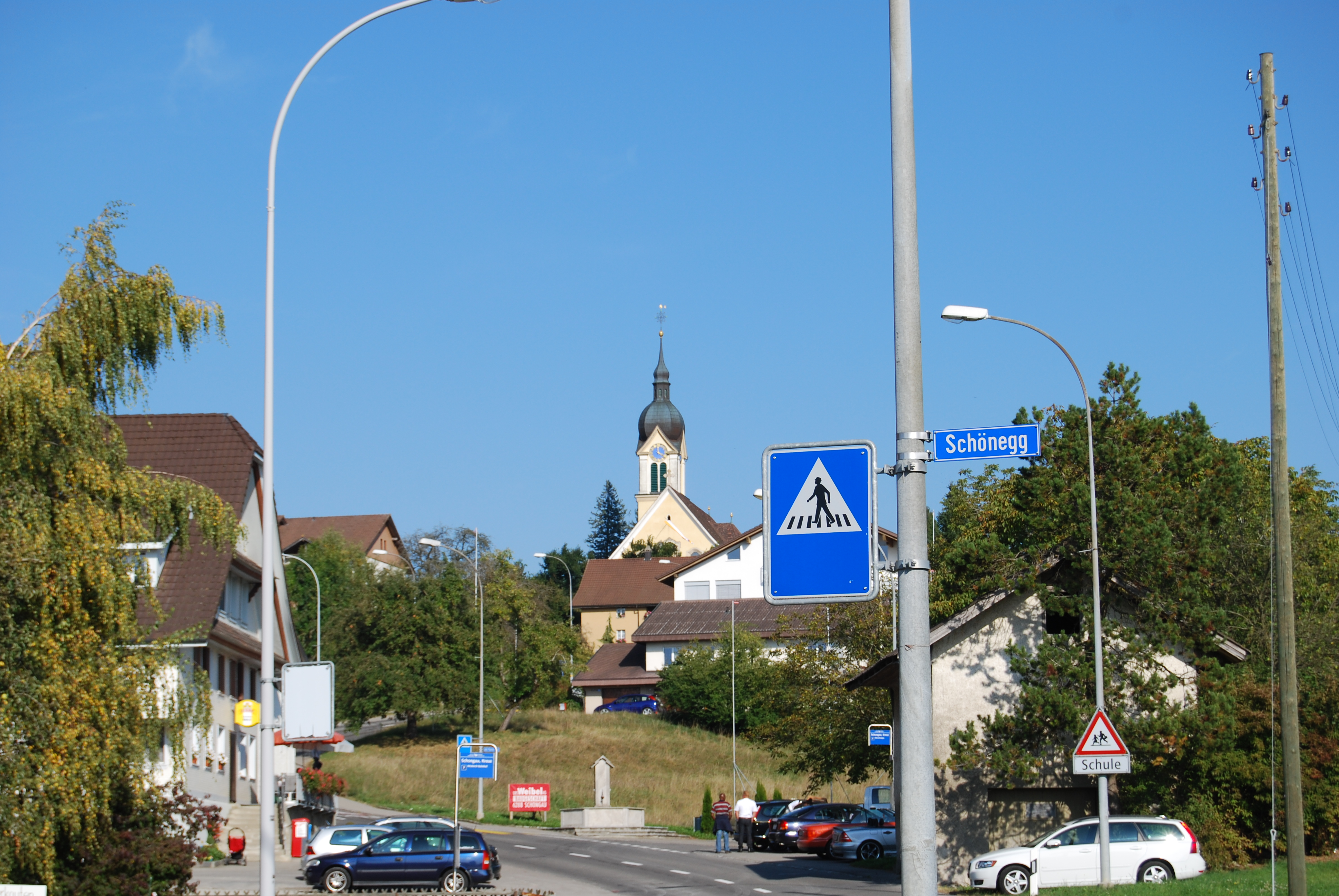 Village centre Church of Schongau, canton of Luzern, SwitzerlandEsperanto: Vilaĝcentro kaj preĝejo de Schongau, Kantono Lucerno, Svislando